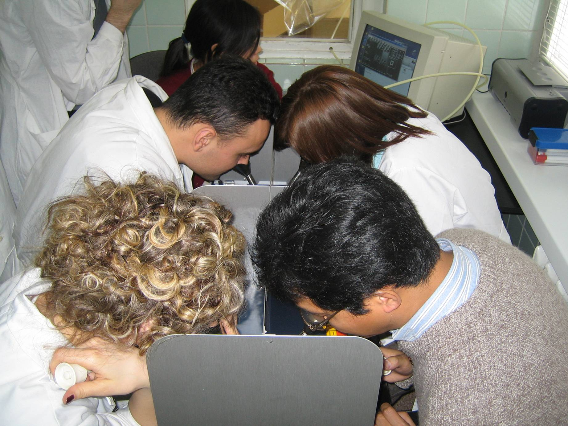 Olfaktometer TO7; The West-Pomeranian University of Technology - Szczecin (Poland)